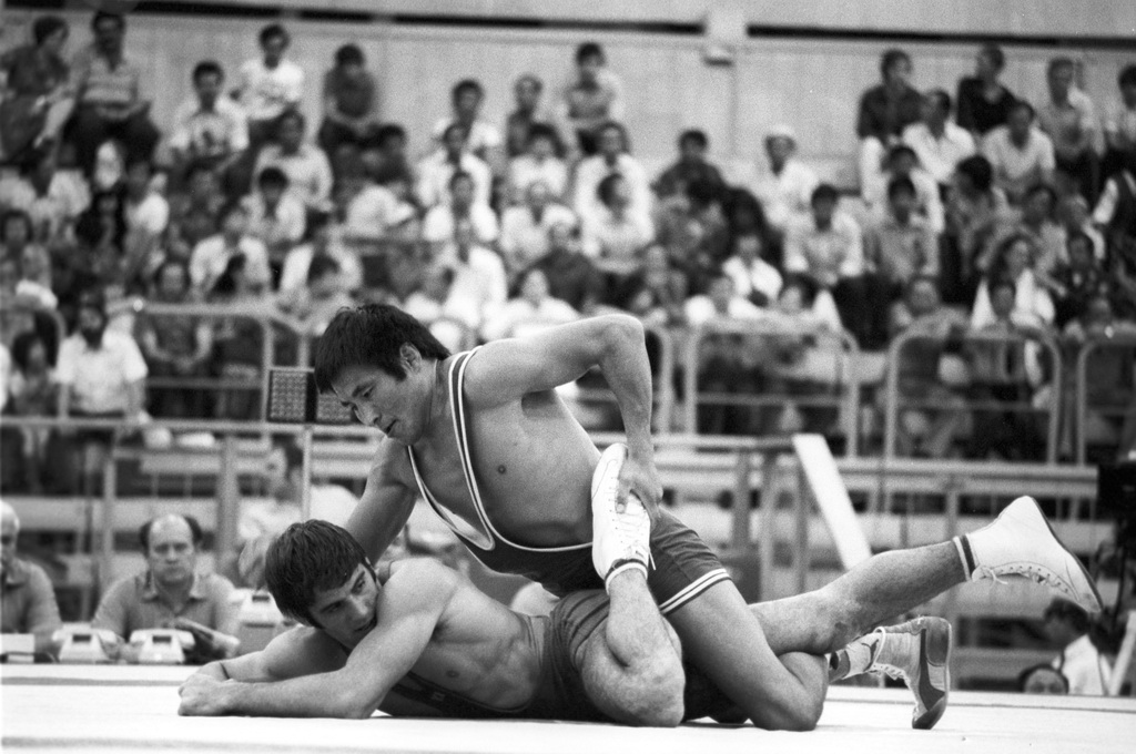 “Wrestlers Valentin Raychev and Jamtsyn Davaajav during their match.”. A men's Wrestling freestyle 74 kg match at the 1980 Summer Olympics. Gold medal winner Valentin Raychev of Bulgaria (bottom) and silver medal winner Jamtsyn Davaajav of Mongolia. XXII Summer Olympics. CSKA Sports Complex in Moscow.